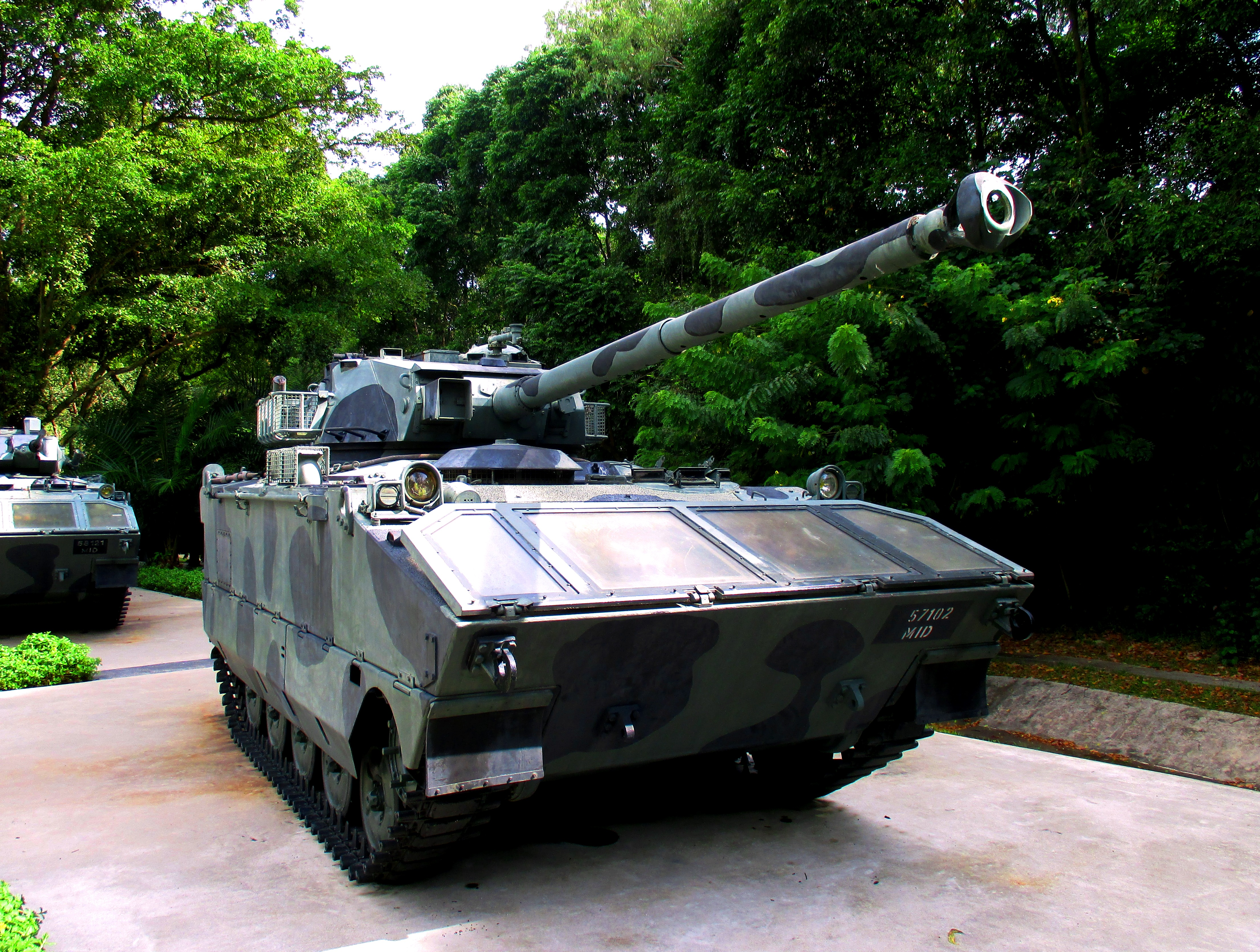 Description: Amphibious AMX-10PAC with 90mm CS "Super" 90/GIAT F4 gun at the Singapore Army Museum, Discovery Centre, Singapore.